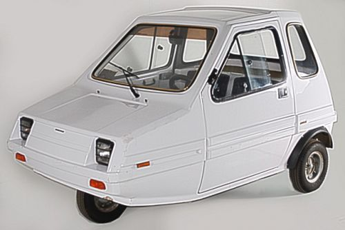 Amica three-wheeler by BMA, later owned by Grecav